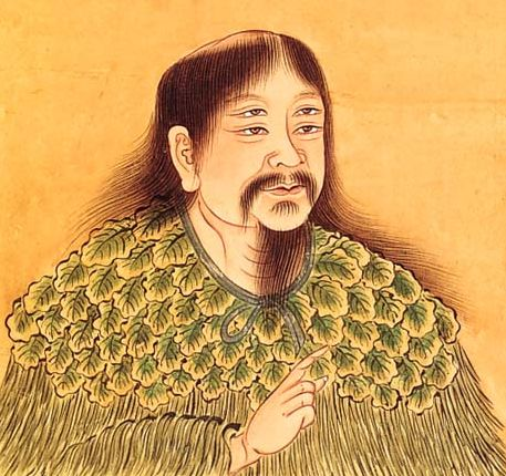 Tsang-Kié, inventeur des caractères chinois (Cangjie, inventor of Chinese writing system)